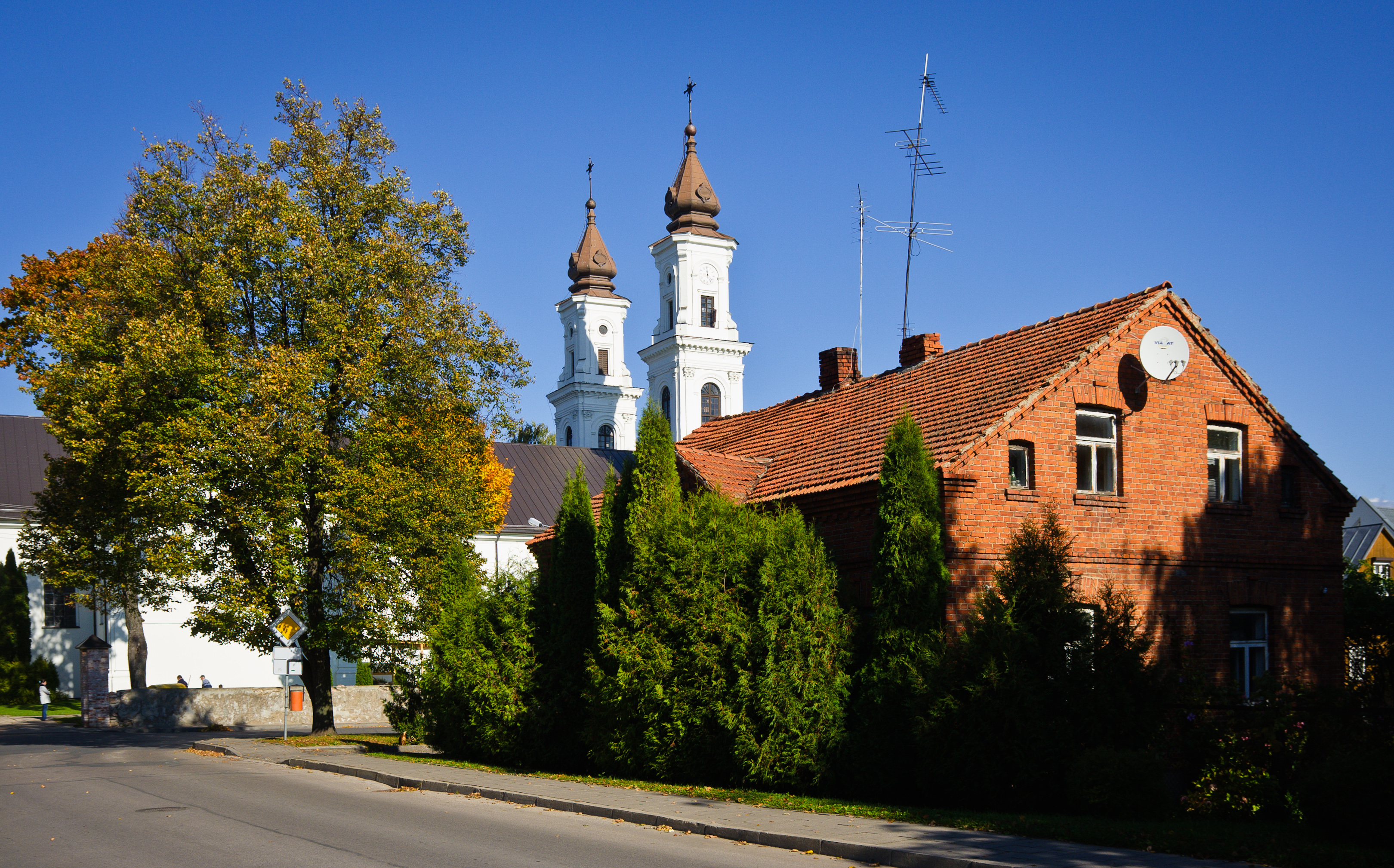 View of central Marijampole, Lithuania